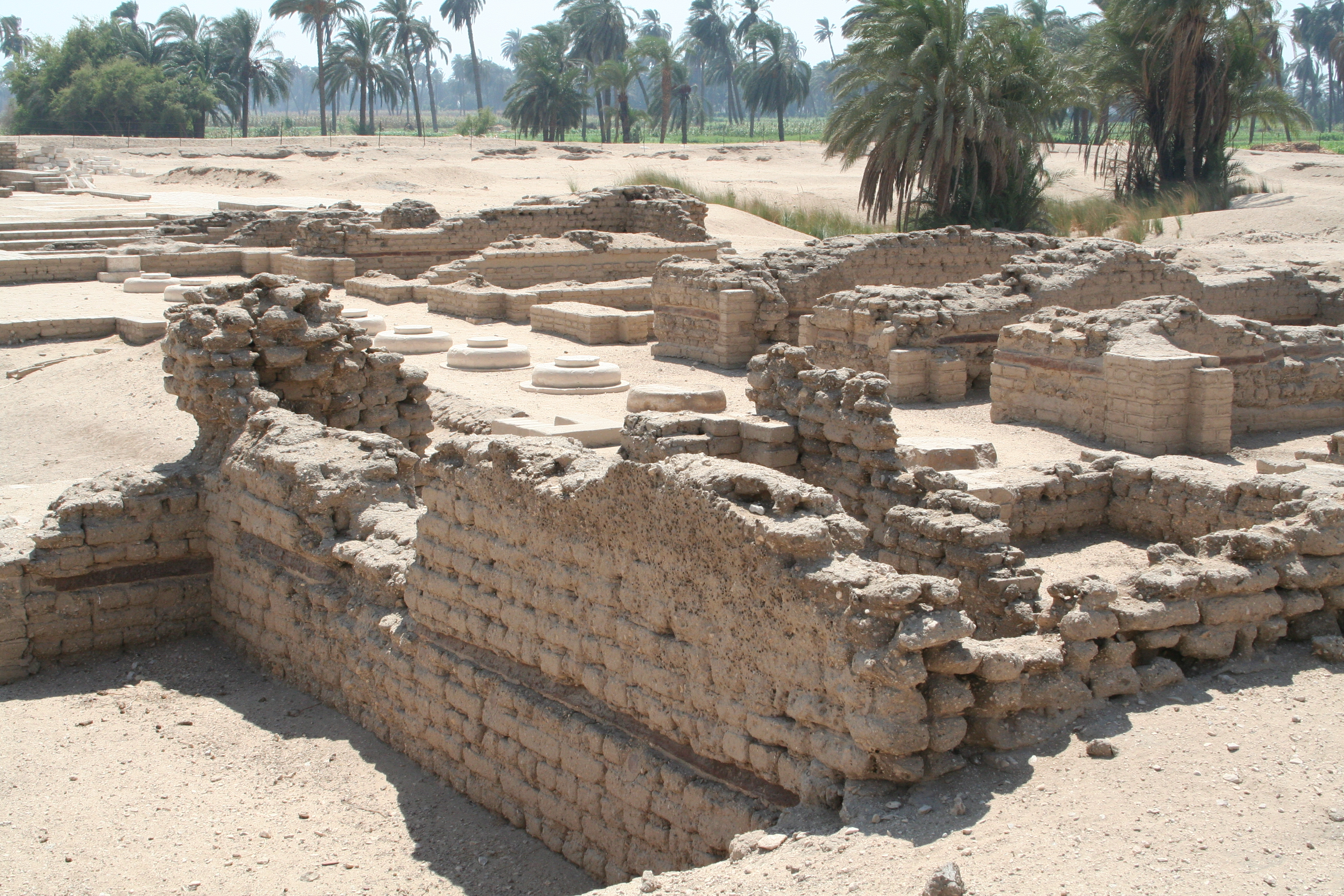 North Palace at Tell el-Amarna